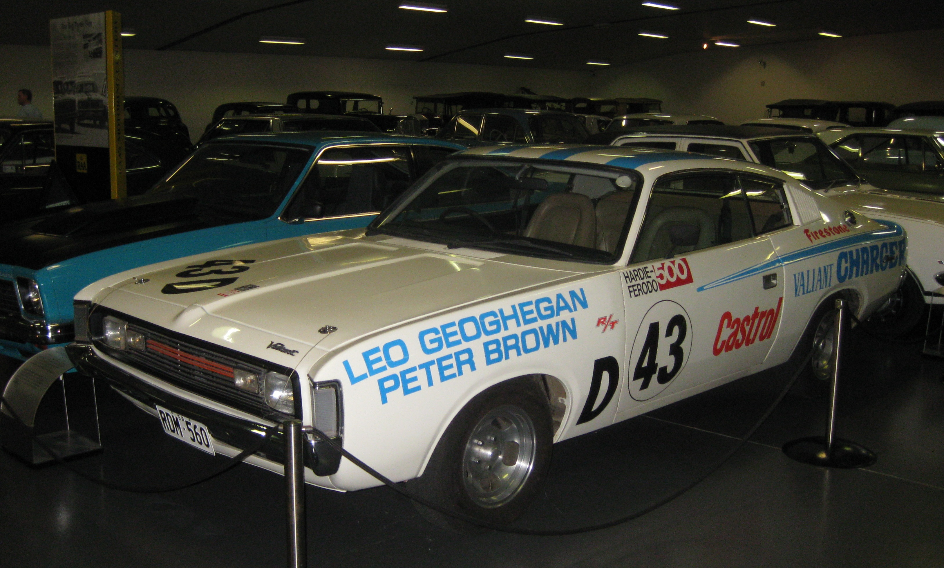 The Chrysler VH Valiant Charger R/T E38 of Leo Geoghegan & Peter Brown finished second in Class D in the 1971 Hardie-Ferodo 500 at the Mount Panorama Circuit, Bathurst, New South Wales, Australia. The car is pictured at the National Motor Museum at Birdwood in South Australia.